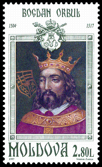 Stamp of Moldova